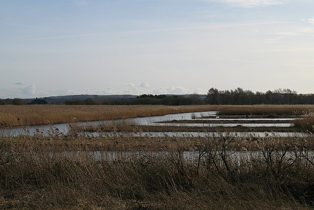 Old peat workings on Walton Heath The unusual linear pattern in this lake is a result of the way the peat was extracted. Fisons PLC, who excavated this ground, had several peat-cutting machines. The machines would go up and down the grounds in lines cutting small blocks, called mumps, as they went. The lines which were cut were known as 'heads'. The linear features in this picture are the remains of the heads after cutting had ceased and the ground was allowed to flood. A picture of one of the peat cutting machines can be seen at It is now Ham Wall RSPB Reserve.